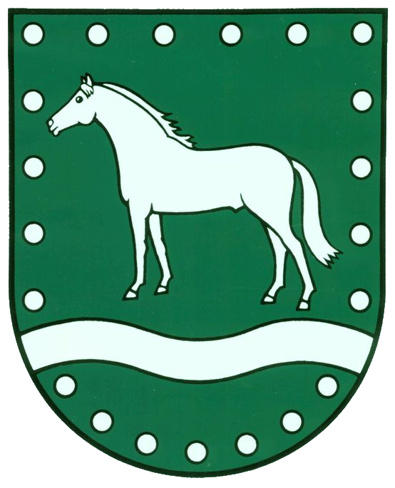 Coat of arms of Loxstedt in Lower Saxony, Germany.